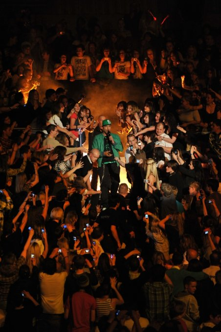 Beschreibung:Mehrzad Marashi performt bei DSDS Quelle:selbst erstellt Datum:Juni,12,2010 Autor:Sanin Huskic